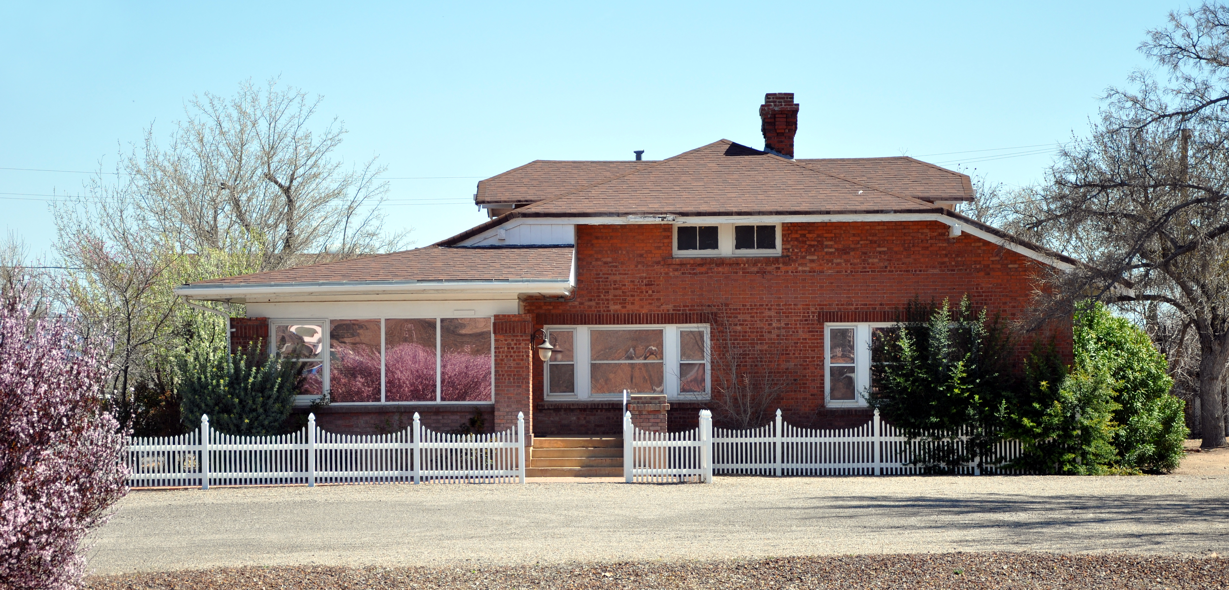 Former superintendent's residence at the UVX smelter complex in Cottonwood in the U.S. state of Arizona.